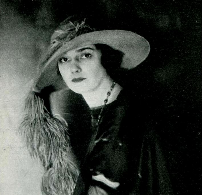 Actress Julia Hoyt (1897 – 1955), listed as Mrs. Lydig Hoyt, for the Broadway play The Squaw Man, cropped at bottom, on page 9 of the March 1922 The Tatler.